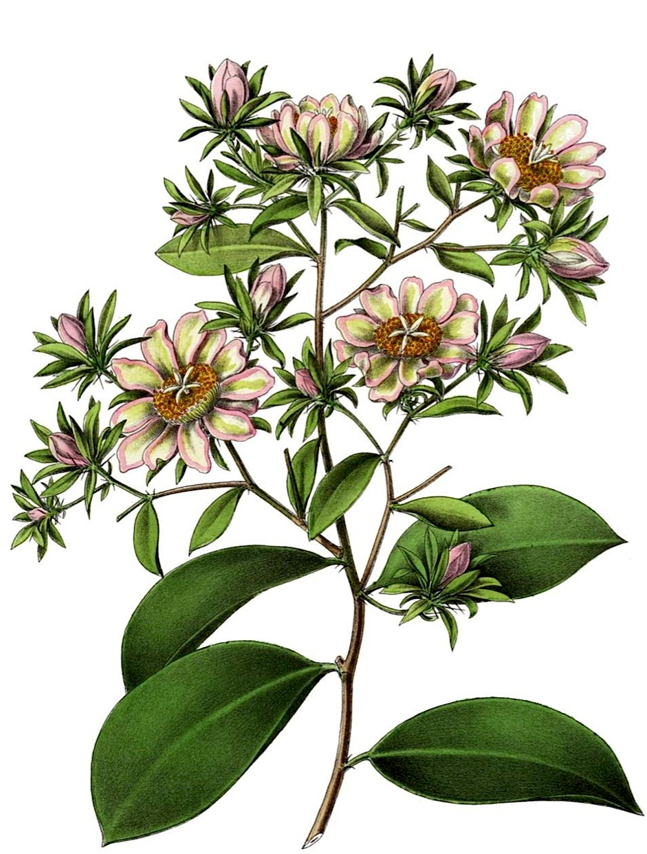 Pereskia aculeata